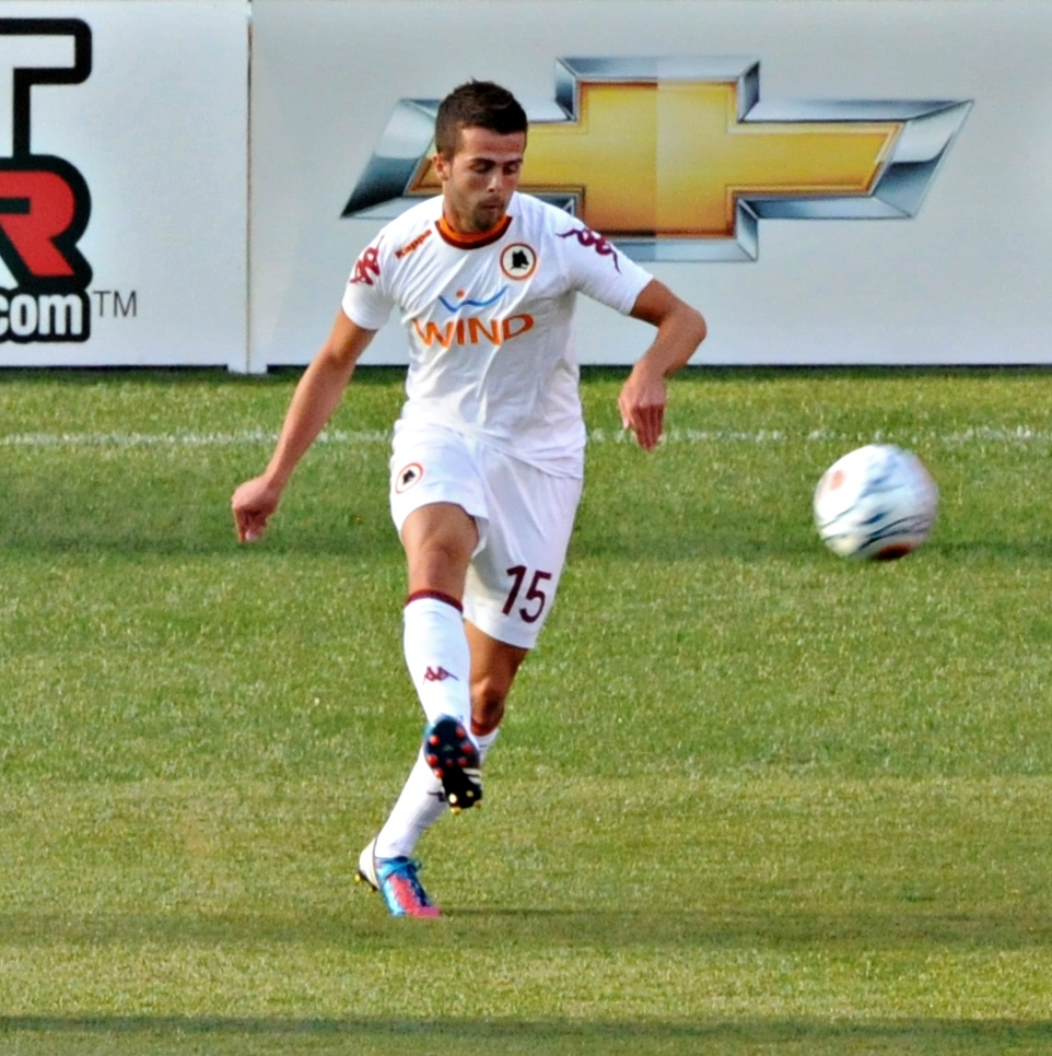 Miralem Pjanic vs. Liverpool on July 25, 2012